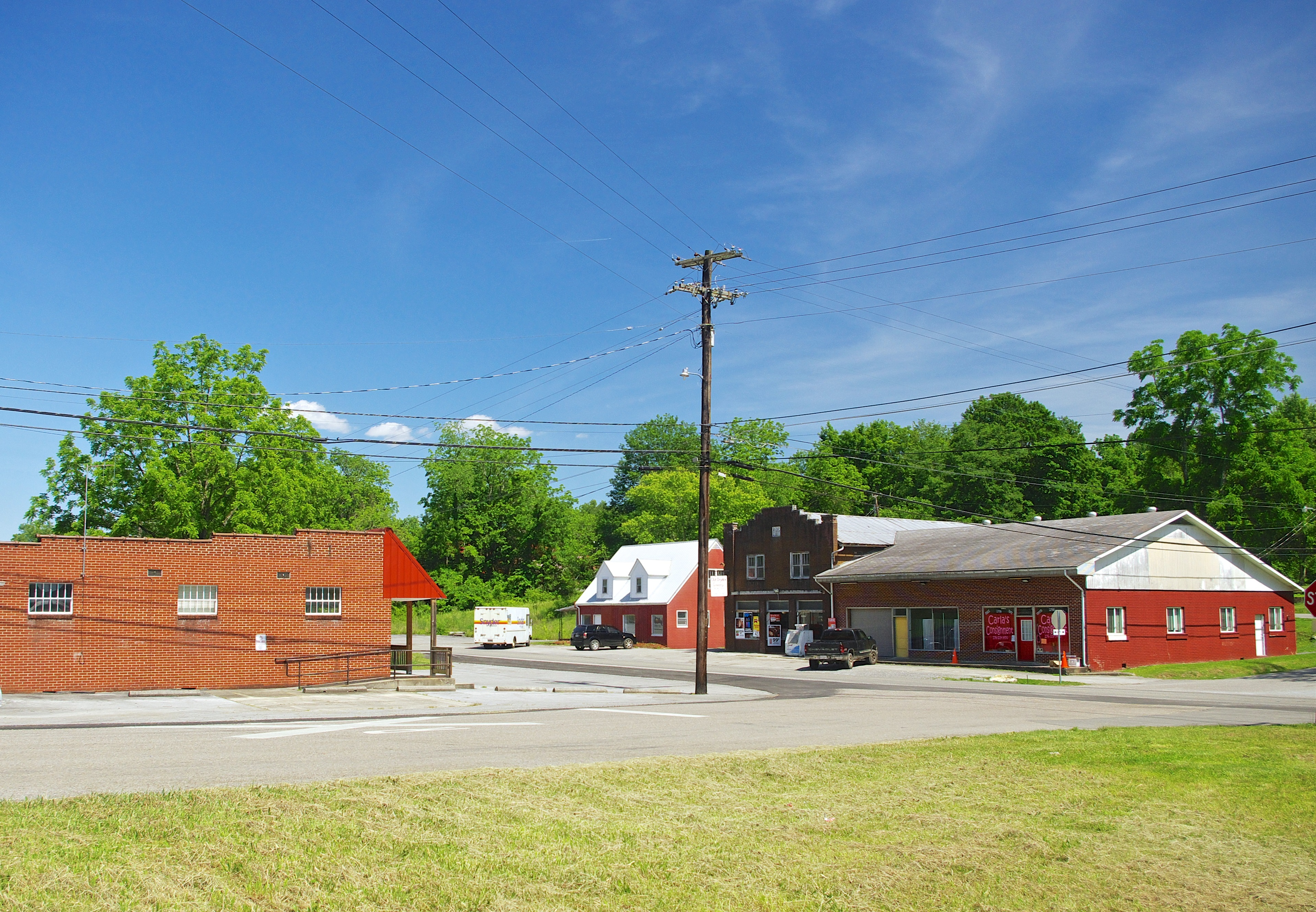 Businesses along Dryden Loop in Dryden, Virginia, United States.